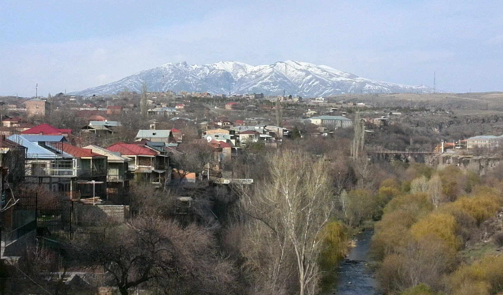 View on Mt Aragats from Ashtarak, Armenia